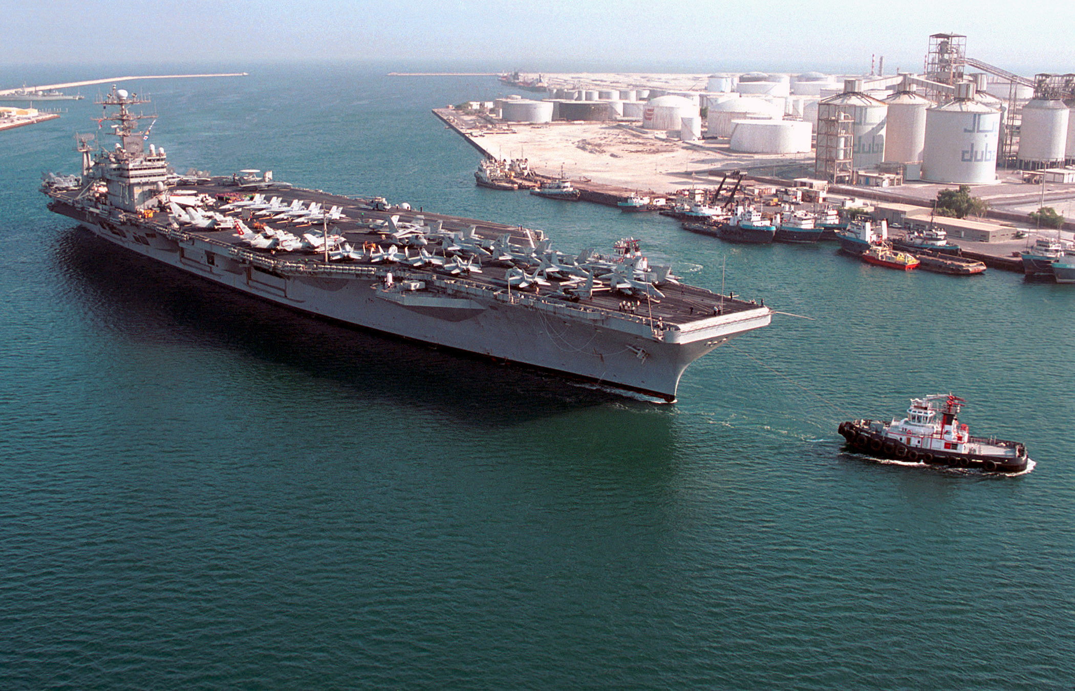 USS George Washington (CVN 73) prepares to pull in to Jebel Ali in the United Arab Emirates for a scheduled port visit. WASHINGTON is operating in the Arabian Gulf in support of Operation SOUTHERN WATCH (OSW). OSW is the mission that enforces the coalition imposed southern "no-fly zone" over Iraq.